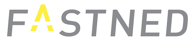 The logo of the Fastned corporation.